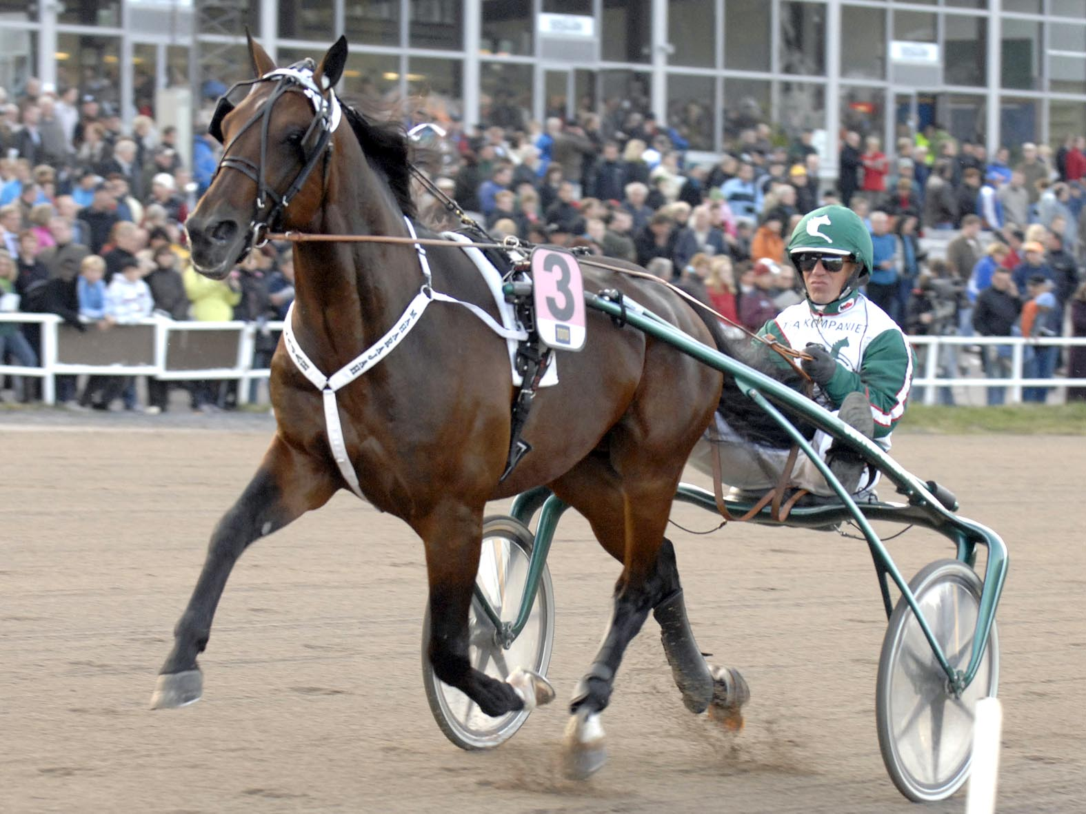 Örjan Kihlström och Maharajah i Tammerfors, Finland.